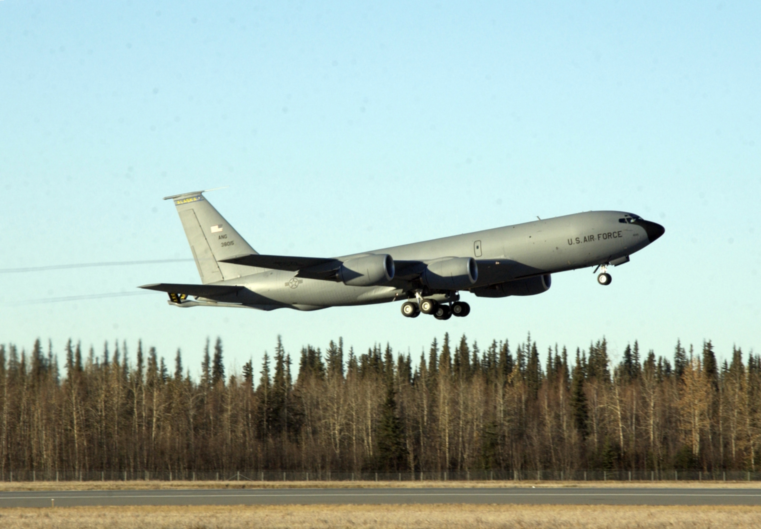 A U.S. Air Force KC-135R Stratotanker (s/n 63-8015) from the 168th Air Refueling Wing, Alaska Air National Guard, Eielson Air Force Base, Alaska takes off in the morning hours of 5 October 2004 in support of the 168th ARW's Operational Readiness Inspection.